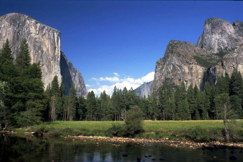 Yosemite National Park overlooking the mountains Cathedral Rocks (right) and El Capitan (left) (Half Dome is not on this picture to see)